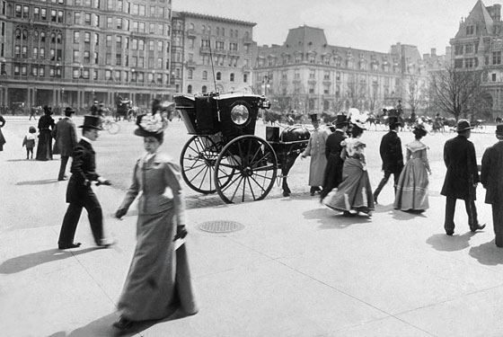 Fifth Avenue and Grand Army Plaza, New York 1898